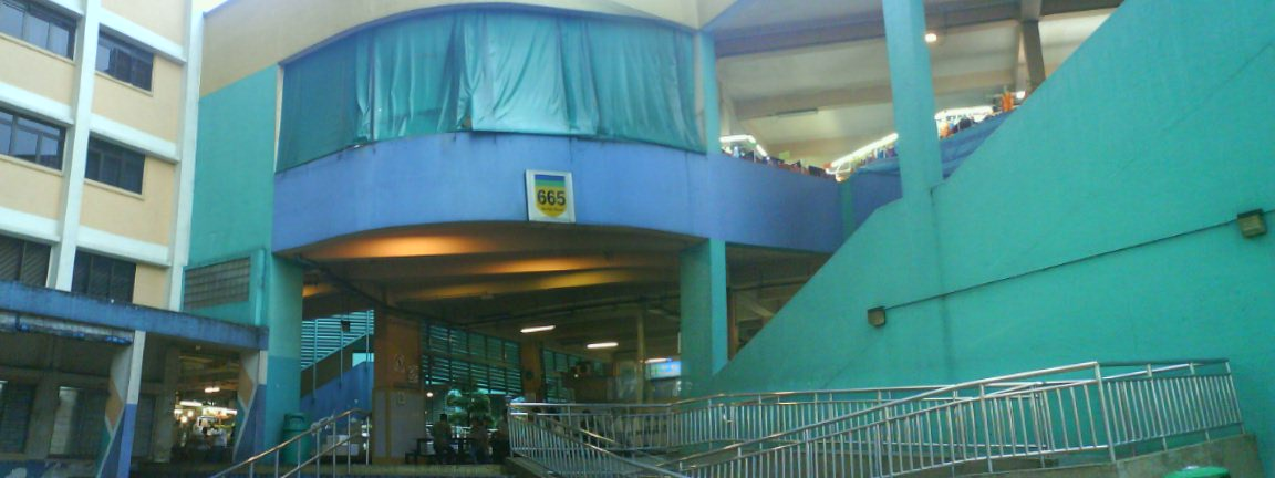 Entrance of BLK 665 Tekka Centre Food Centre & market